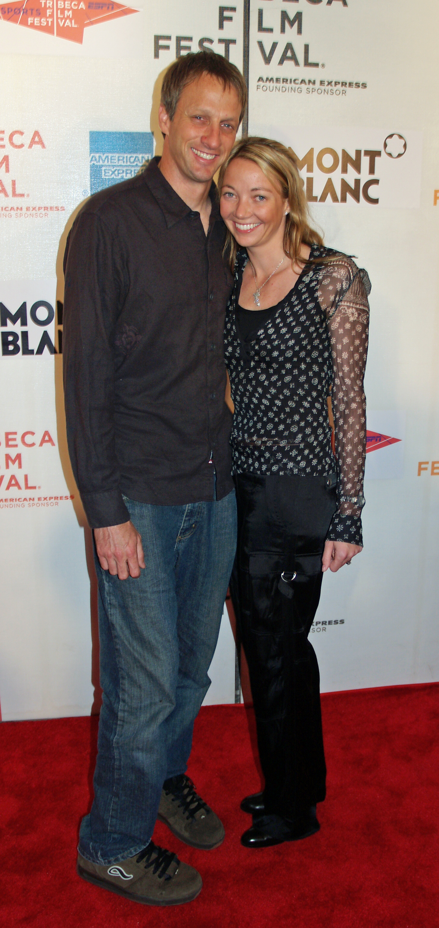 Tony Hawk and Lhotse Merriam